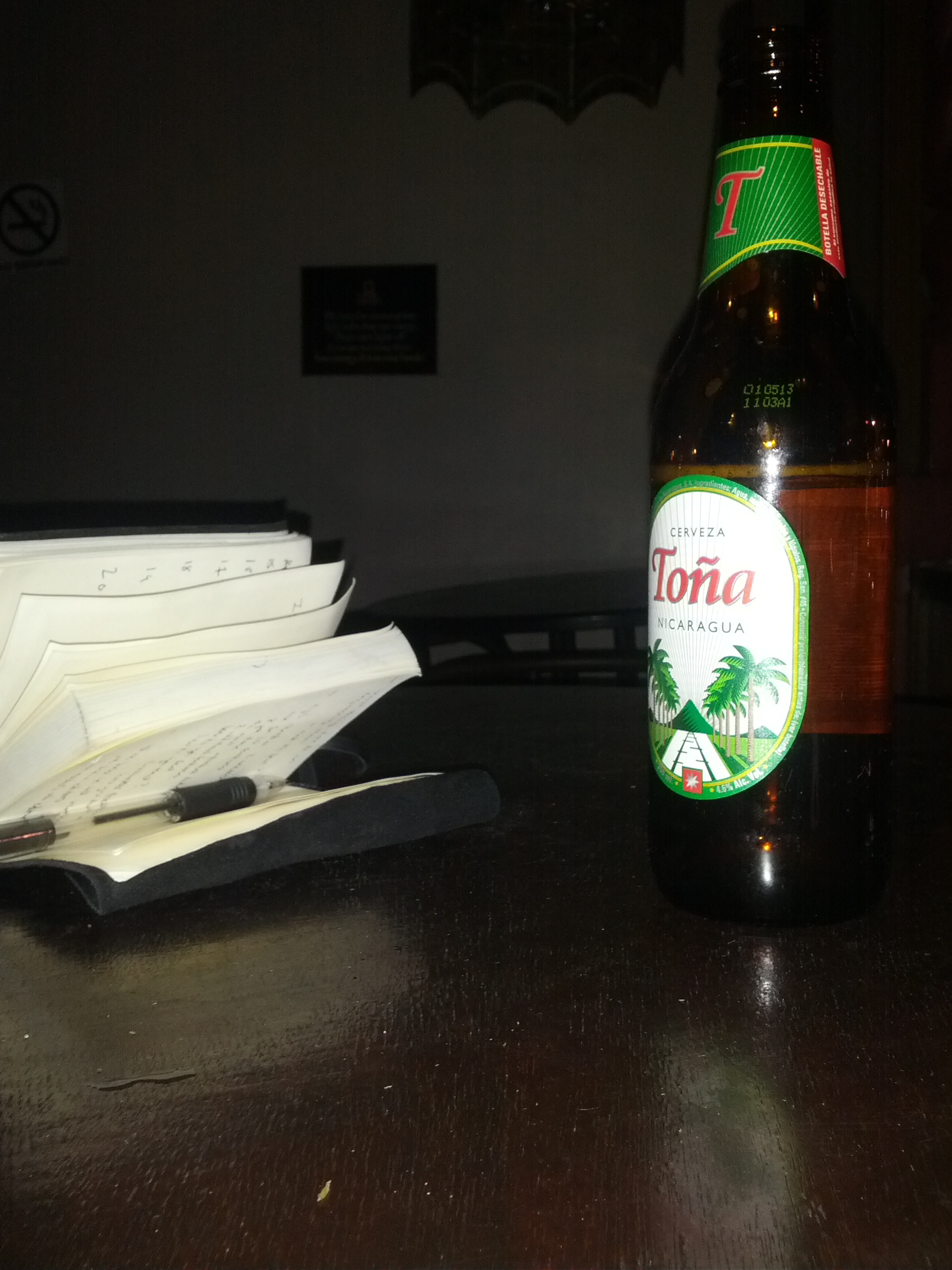 A bottle of Toña beer and a book